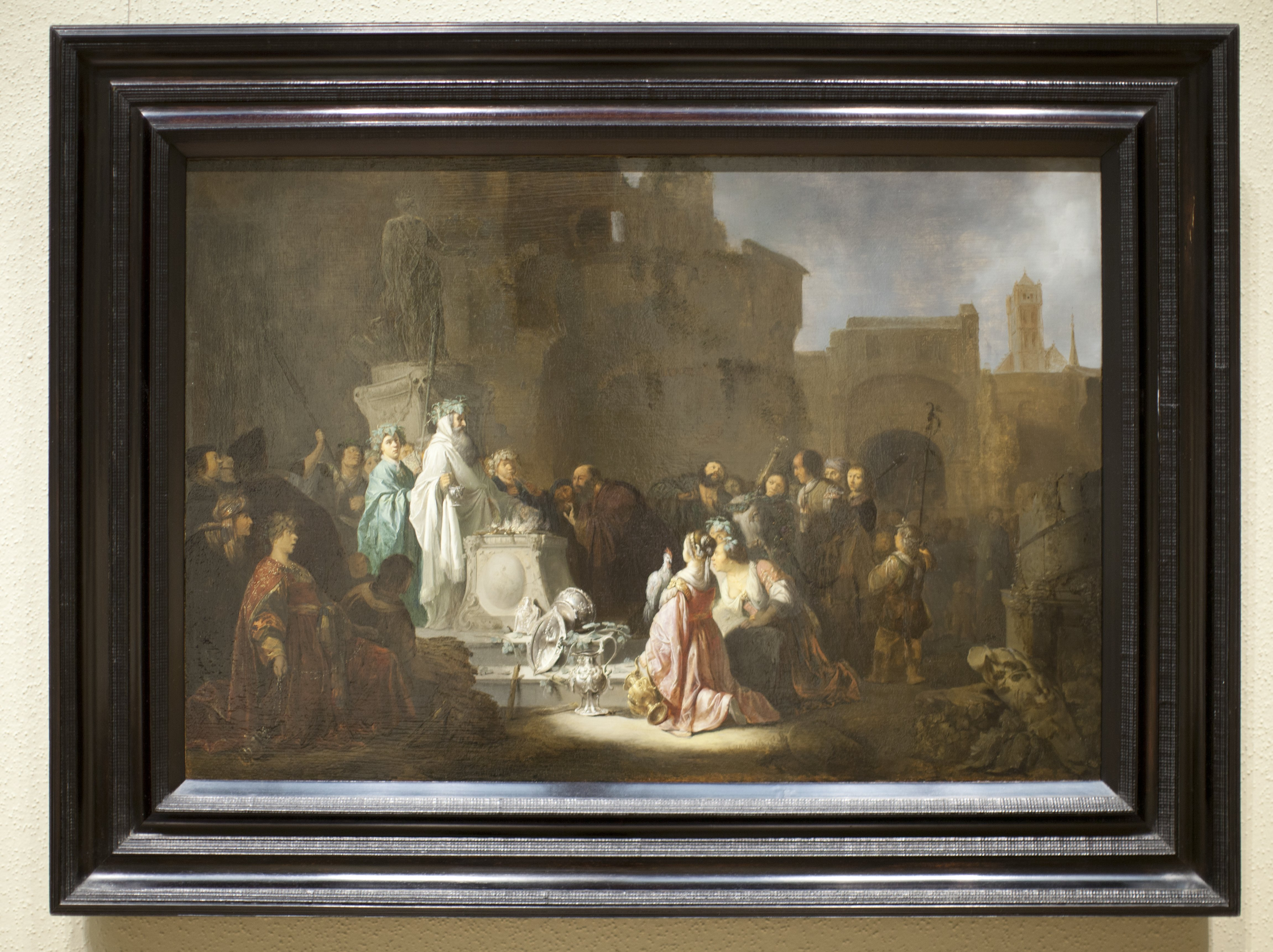 man in white with long grey beard at left center accompanied by man in mint green; both figures wear laurel wreaths; man in white stands behind an altar with burning twigs; three kneeling women at right center with chicken and gold pitcher; silver objects and branches below altar; several other kneeling figures at left; standing figures including two musicians and cow behind; ruined sculpture in LRC; sculpture on tall pedestal behind main figures; buildings close behind background figures